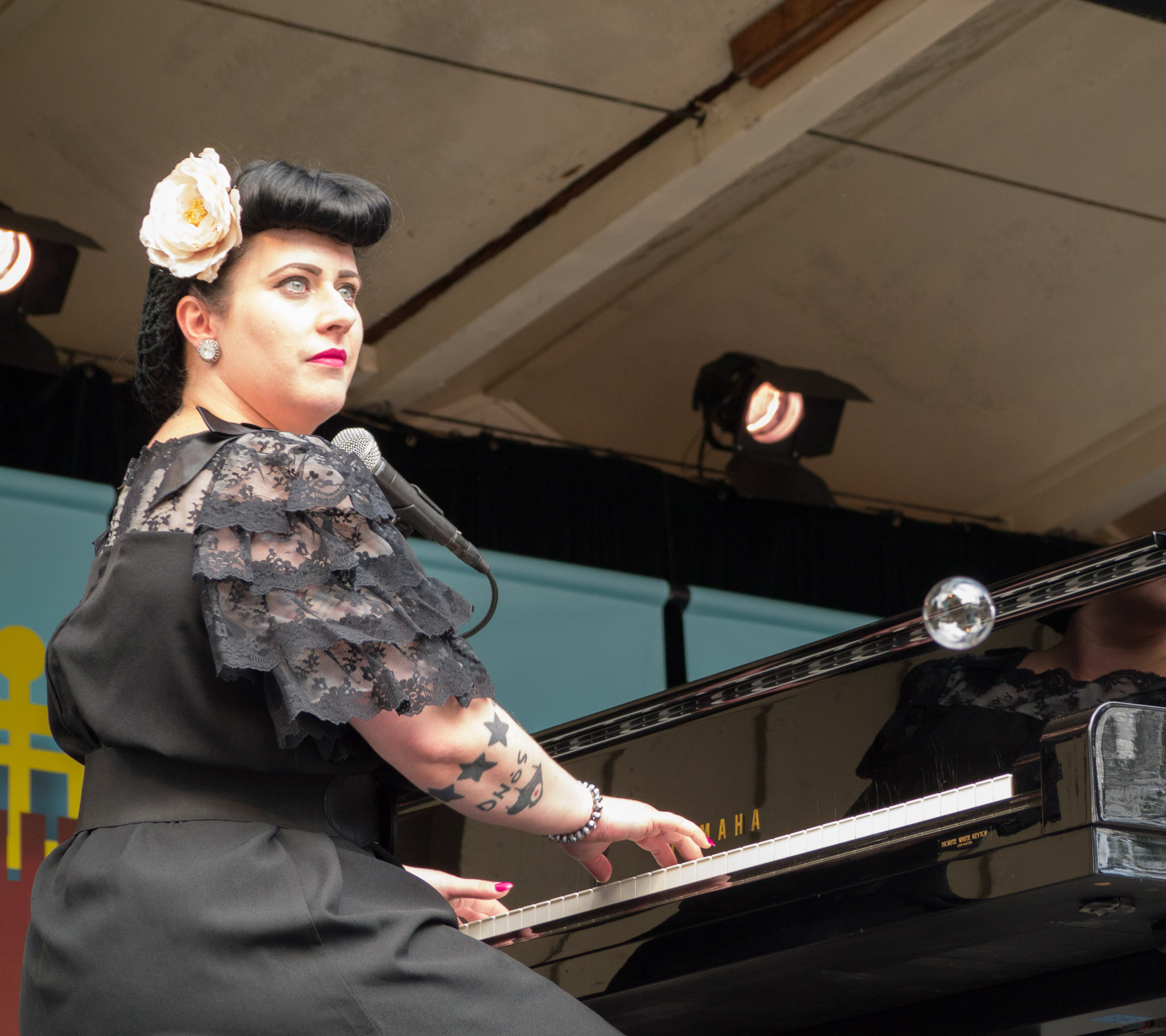 Singer-pianist Davina Sowers performs with Davina and the Vagabonds at the 2014 Monterey Jazz Festival.